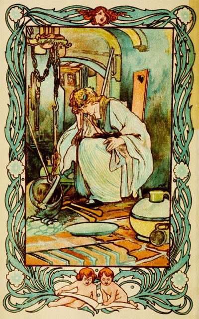 Cindarella illustration by Charles Robinson, 1900. From "Tales of Passed Times" with stories by Charles Perrault.